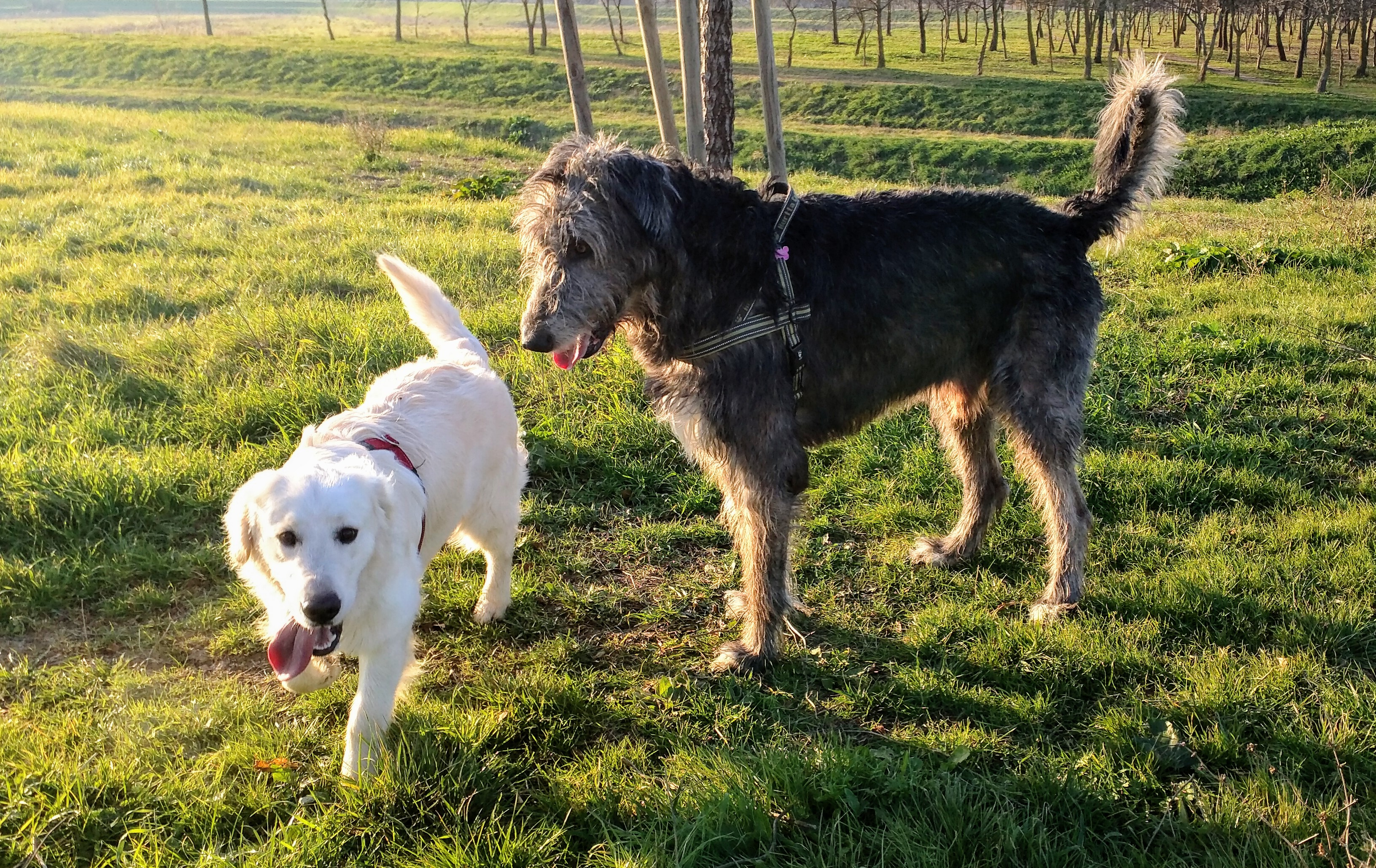 irish wolfhound and retriver